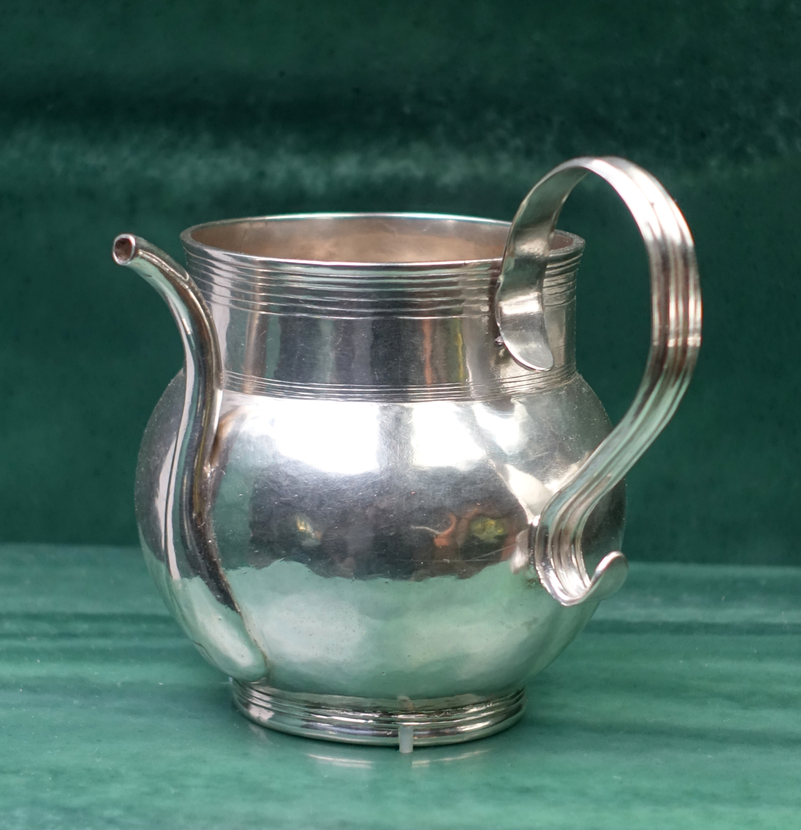 Exhibit in the Fowler Museum - University of California, Los Angeles - Los Angeles, California, USA.